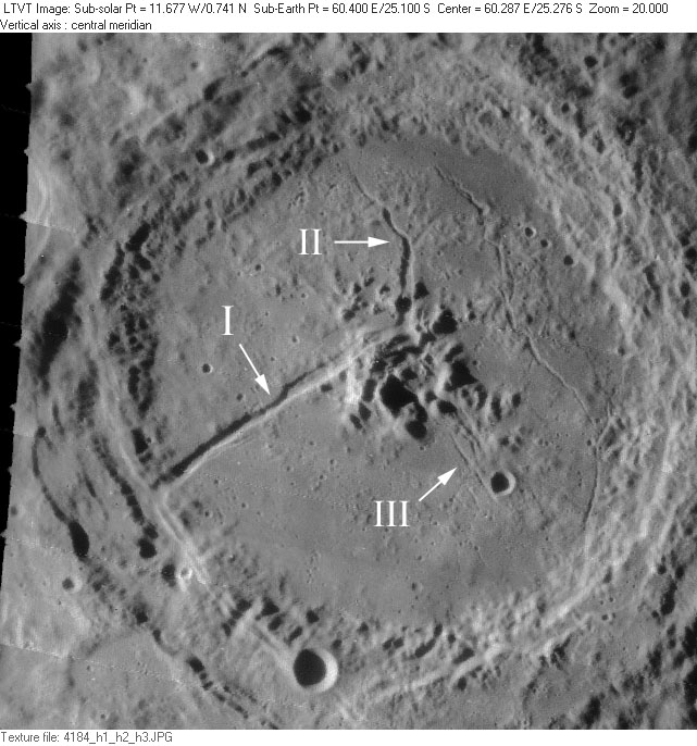 Moon crater Petavius and Rimae Petavius. Detail from Lunar Orbiter IV-184H. High resolution scan from USGS Lunar Orbiter Digitization Project remapped to north-up aerial view by LTVT.